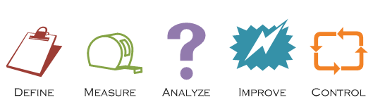 Steps in the DMAIC process